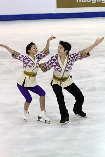 2010 World Junior Figure Skating Championships - Maia and Alex Shibutani